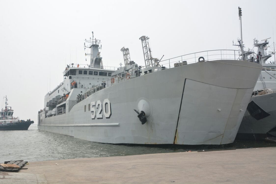 Indonesian Navy landing ship tank KRI Teluk Bintuni (520) in Tenau Kupang Port during NKRI Koridor Papua Bagian Selatan Expedition.